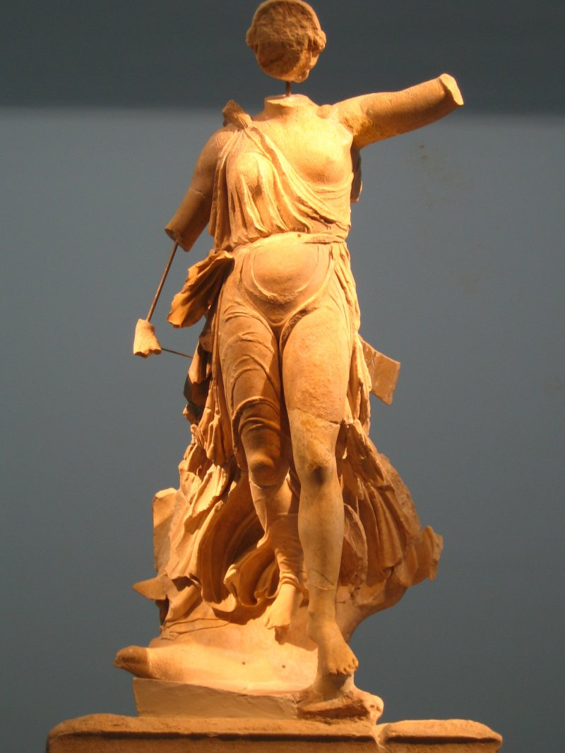 Statue of Nike from Olympia, Greece